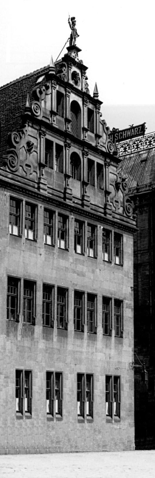 s.o.